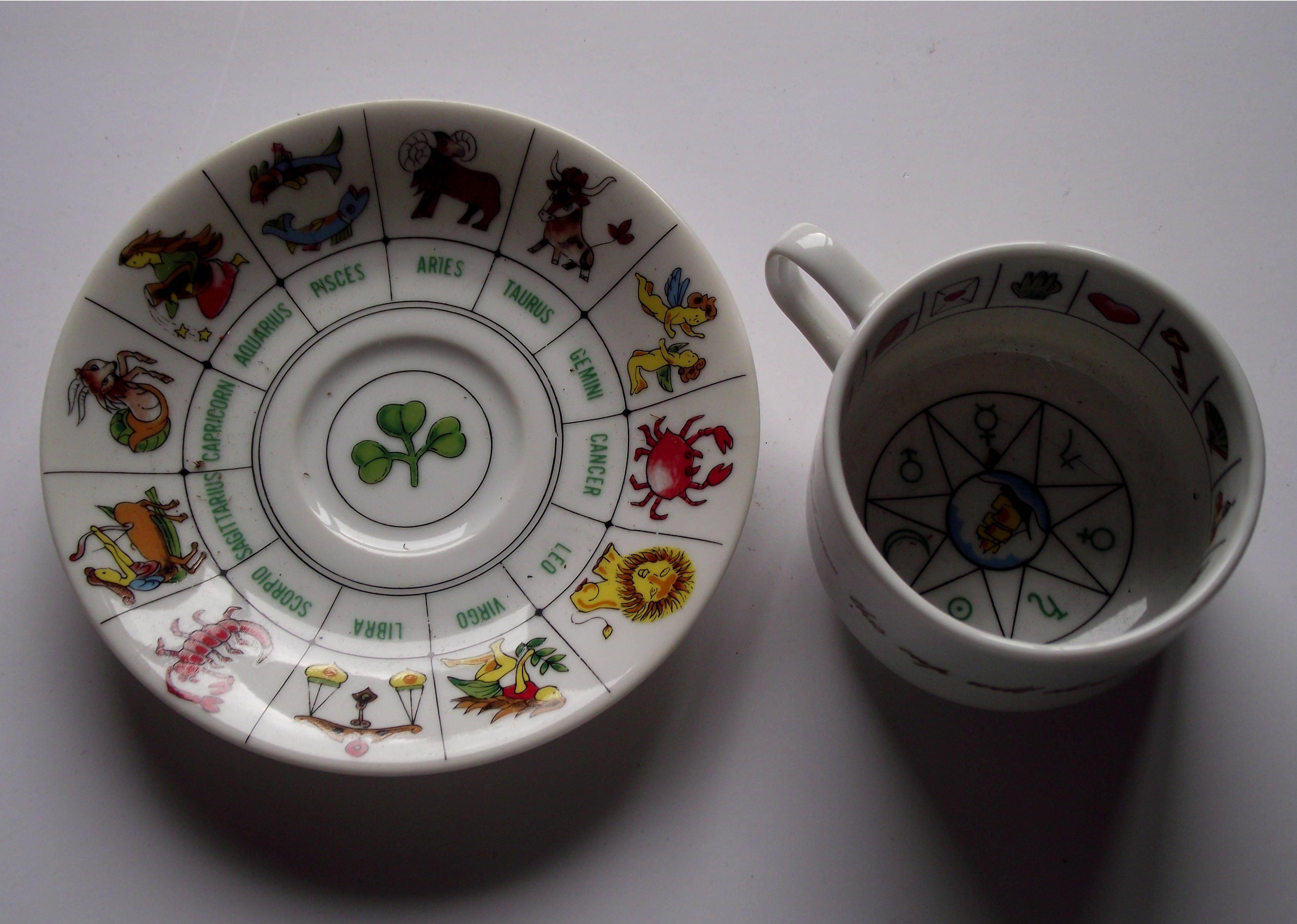 Saucer with Zodiac signs around shamrock. Cup with planetary heptagram on inside bottom and divination symbols around inside rim. From Mal Corvus Witchcraft & Folklore artefact private collection owned by Malcolm Lidbury (aka Pink Pasty)